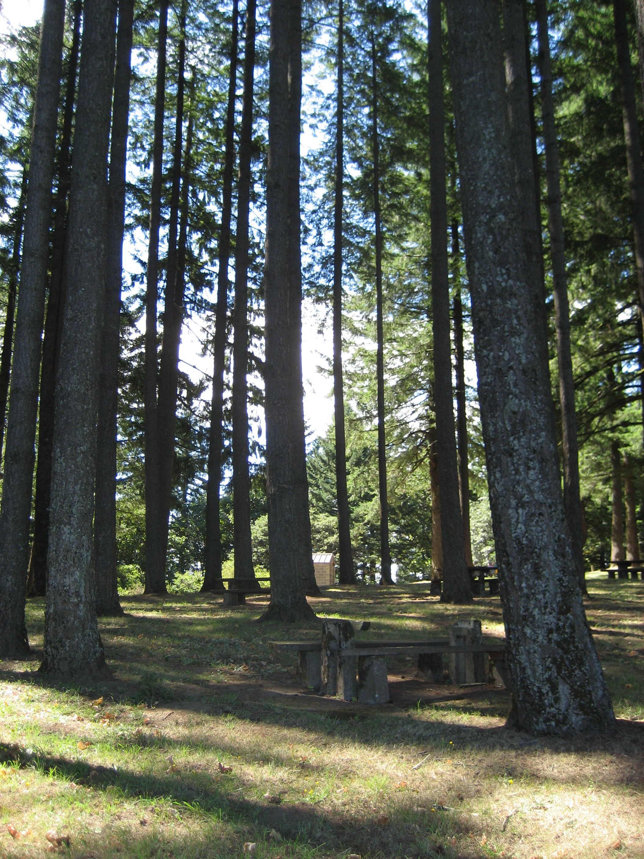 Bald Peak State Scenic Viewpoint in Oregon